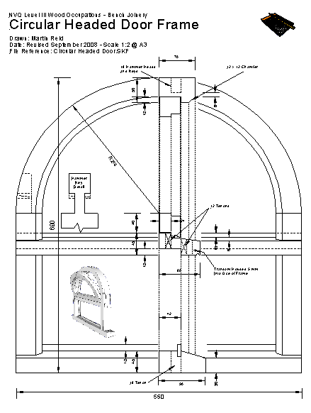 This is a small representation of an AutoSketch drawing used by UK Advanced Joinery students for the manufacture of complex frames